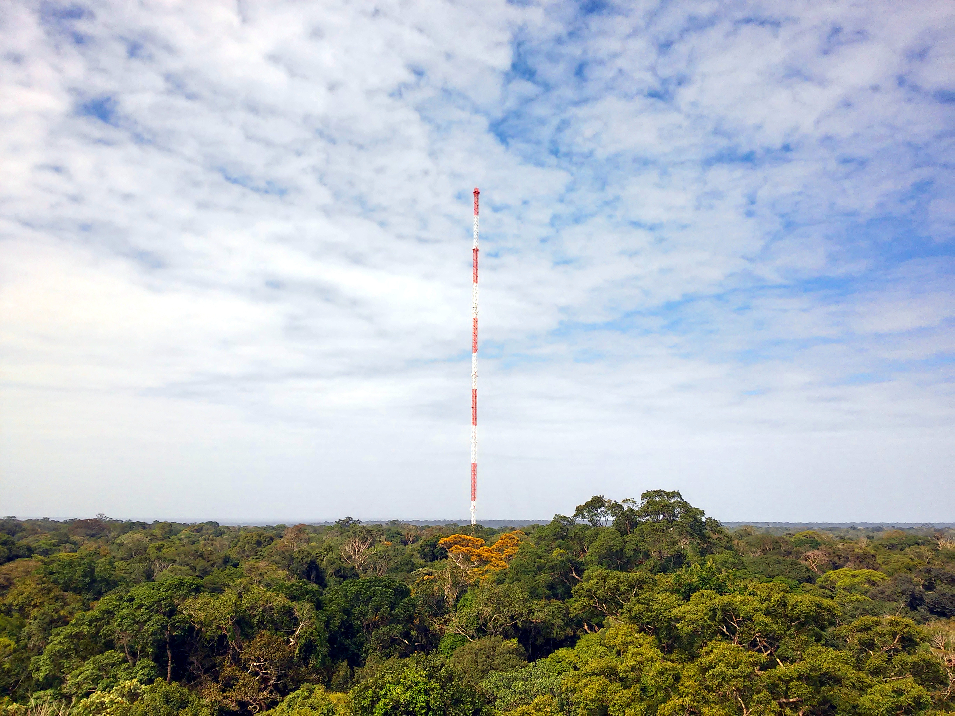 View from one of the 80-m towers. Date: 05 Feb 2015